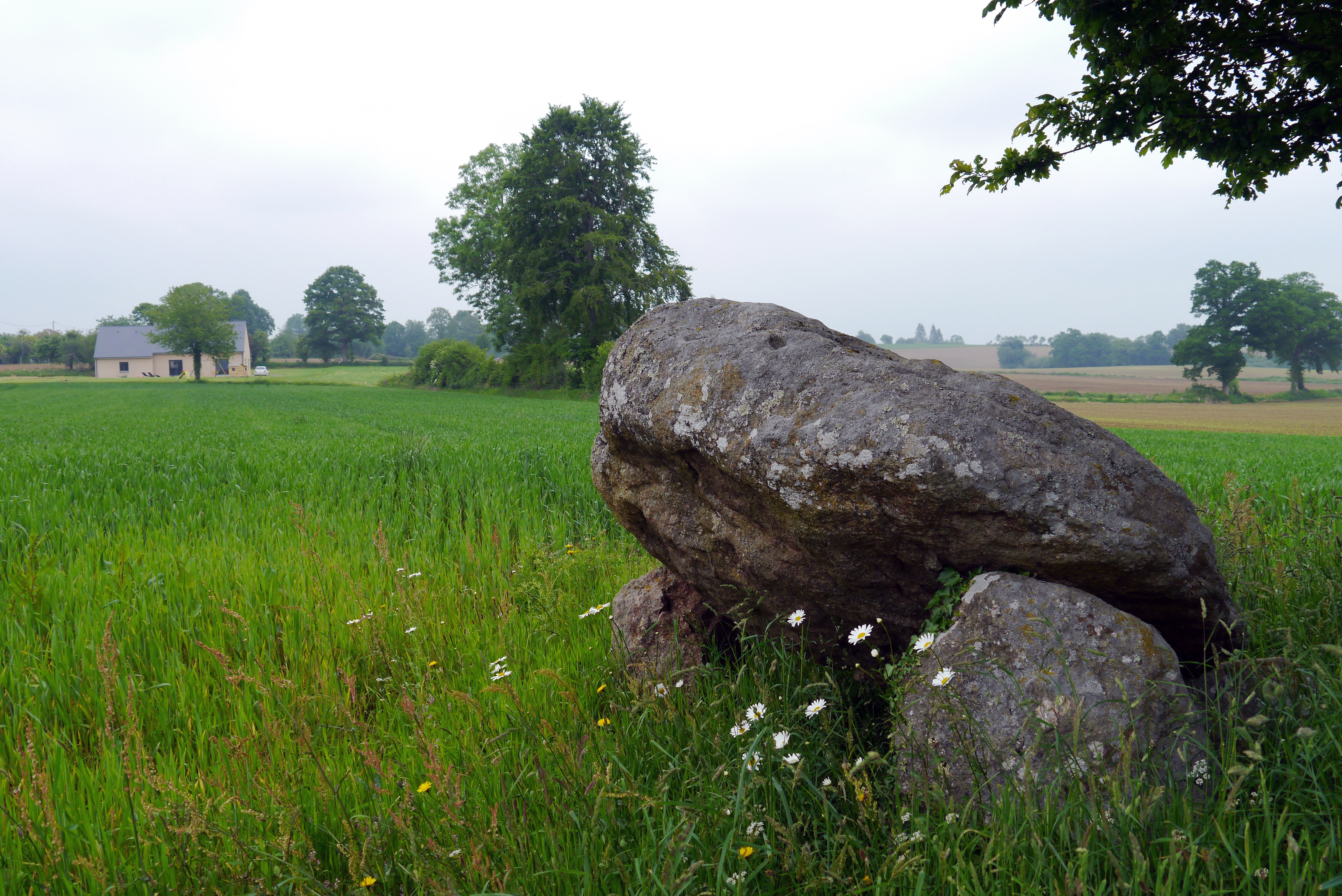 Saint-Bômer-les-Forges, Orne, France. Dolmen du Creux.